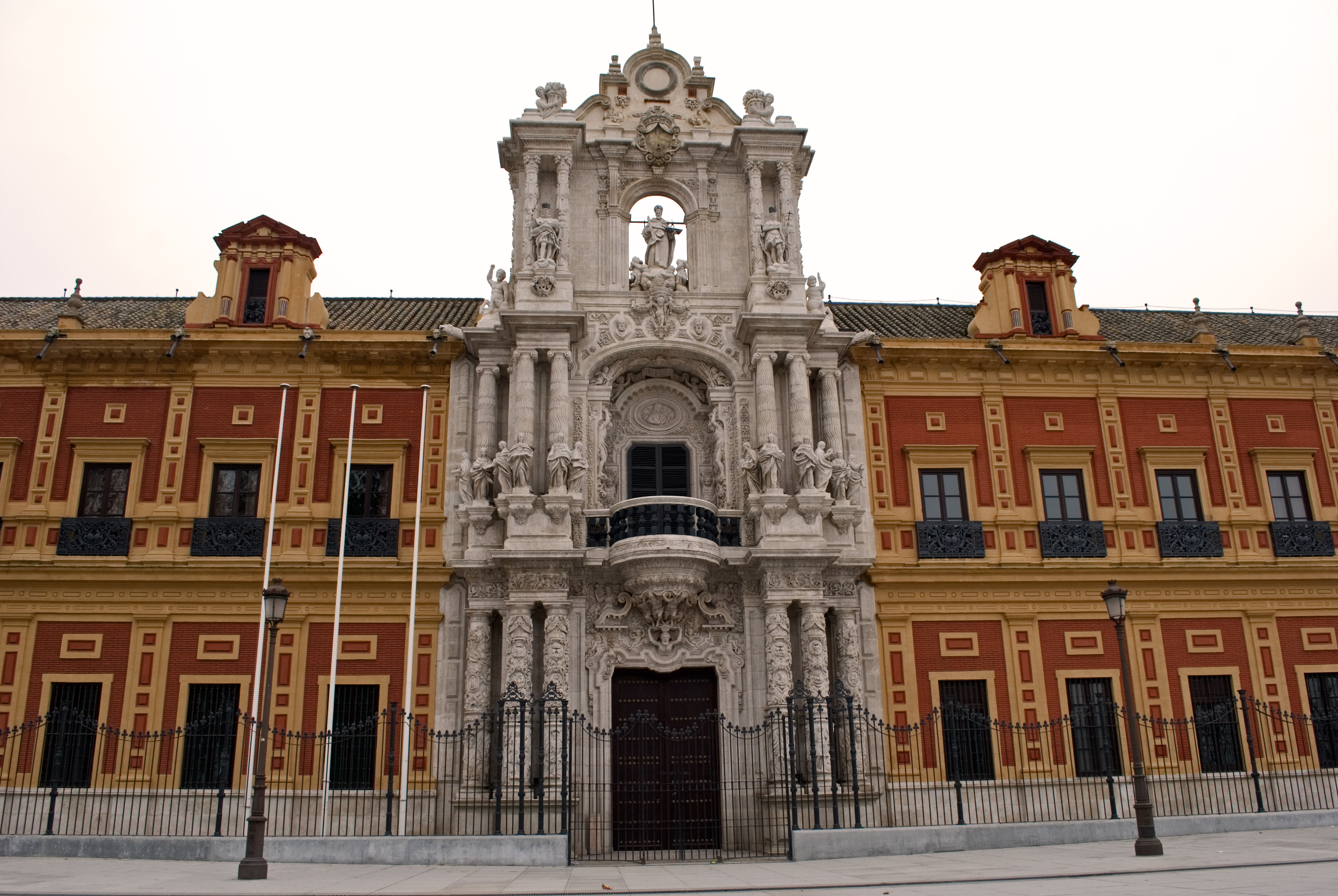 Palace of San Telmo, Seville